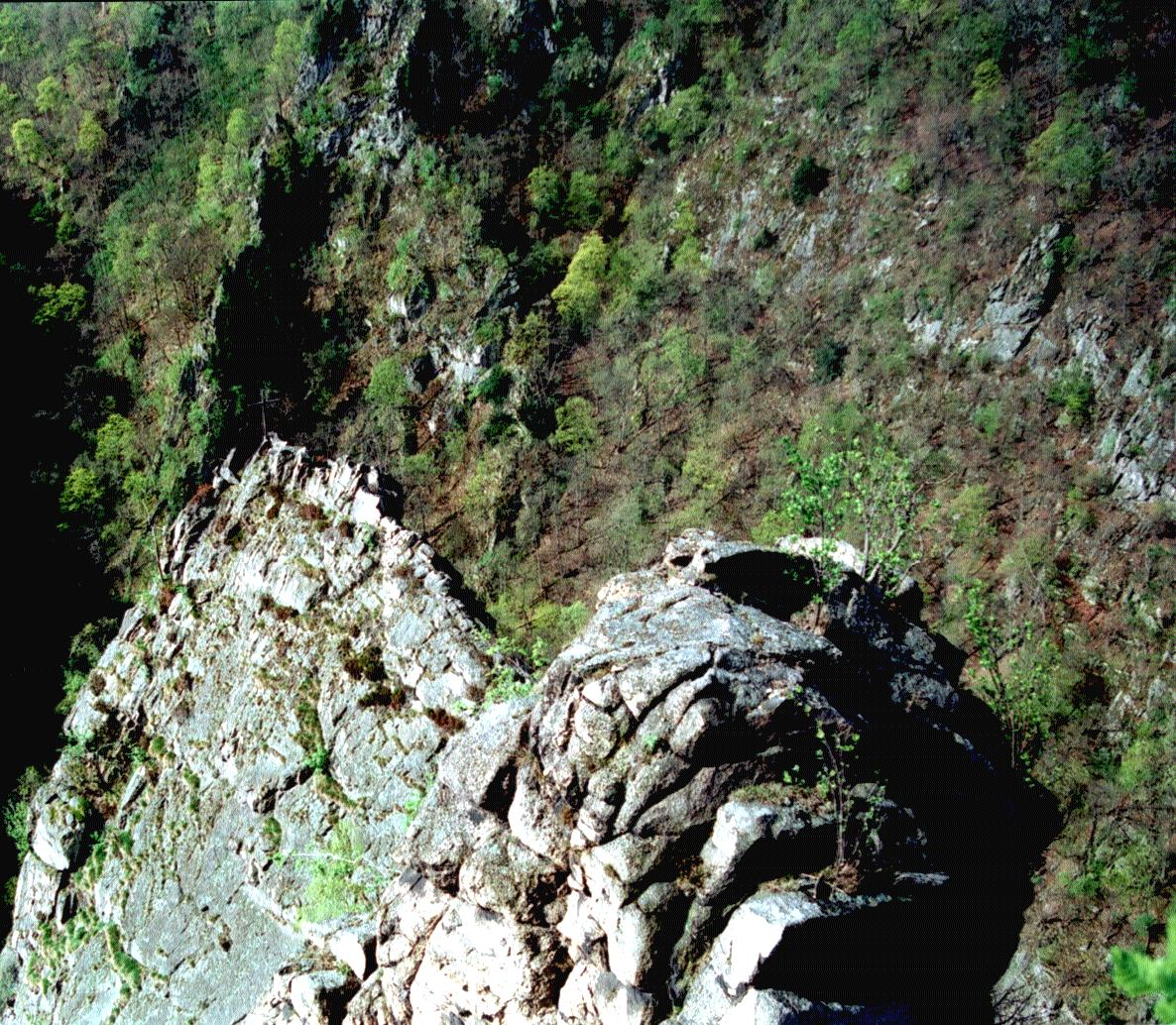 View from Roßtrappe rock outcrop to the southwest into the Bode Gorge, Saxony-Anhalt, Germany. Photographed by the author in April 2003